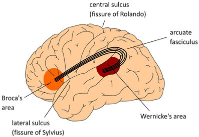 The classical Wernicke-Lichtheim-Geschwind model of the neurobiology of language. In this model Broca's area is crucial for language production, Wernicke's area subserves language comprehension, and the necessary information exchange between these areas (such as in reading aloud) is done via the arcuate fasciculus, a major fiber bundle connecting the language areas in temporal cortex (Wernicke's area) and frontal cortex (Broca's area). The language areas are bordering one of the major fissures in the brain, the so-called Sylvian fissure. Collectively, this part of the brain is often referred to as perisylvian cortex.